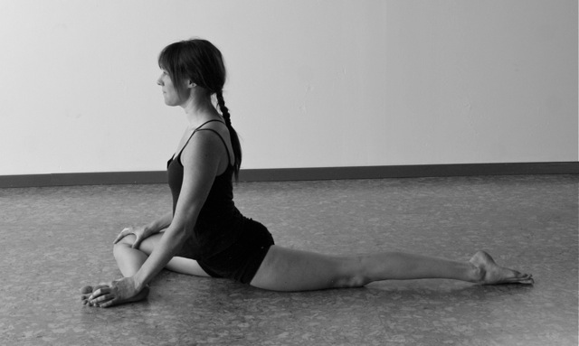 Photo of the Yin Yoga pose, Swan, in which the subject has back bent backward and her right knee at a 90 degree angle in front of her. The pose is similar to the "yang yoga" Supported King Pigeon Pose, Salamba Kapotasana.